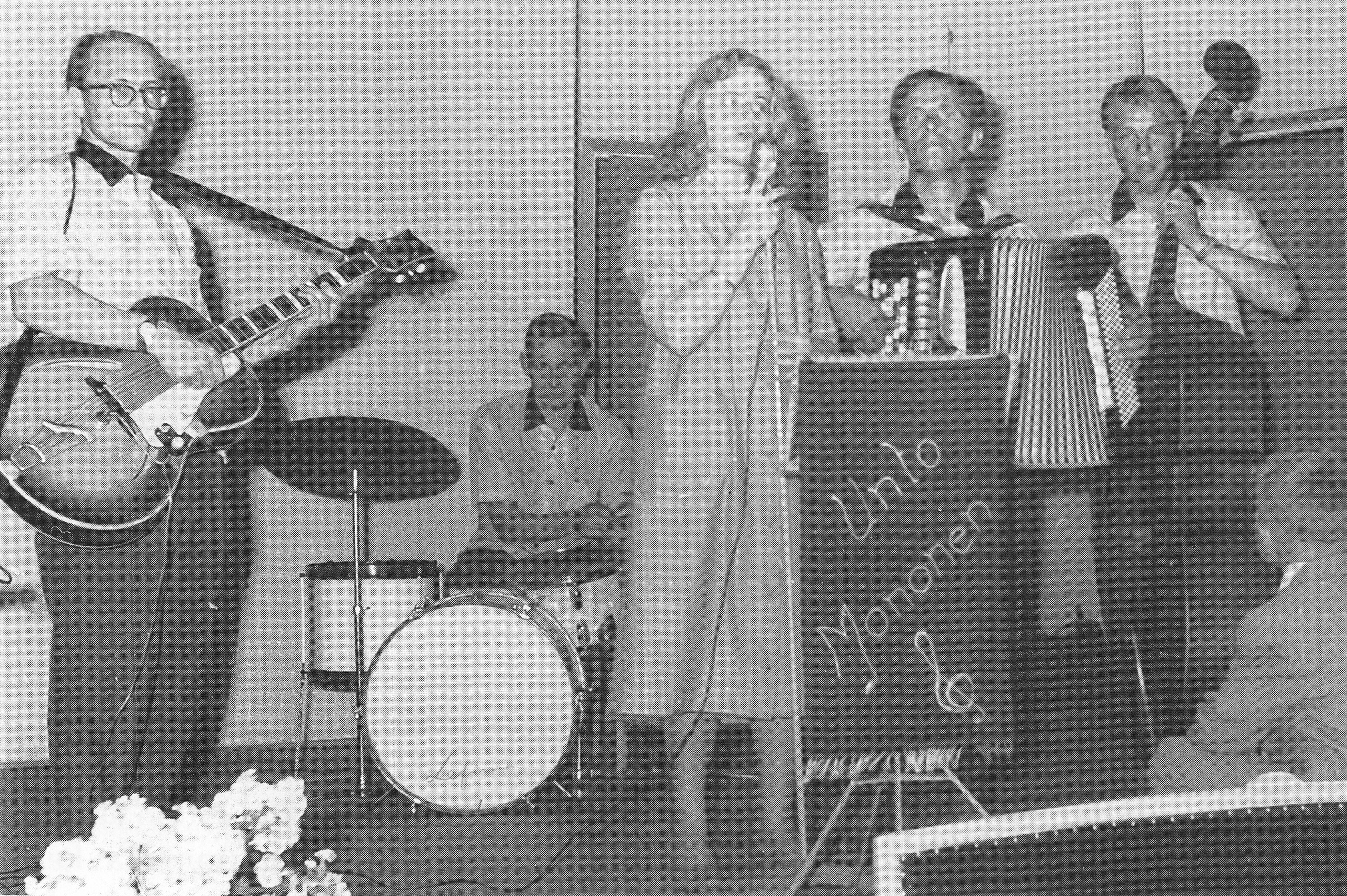 Unto Mononen group 1959